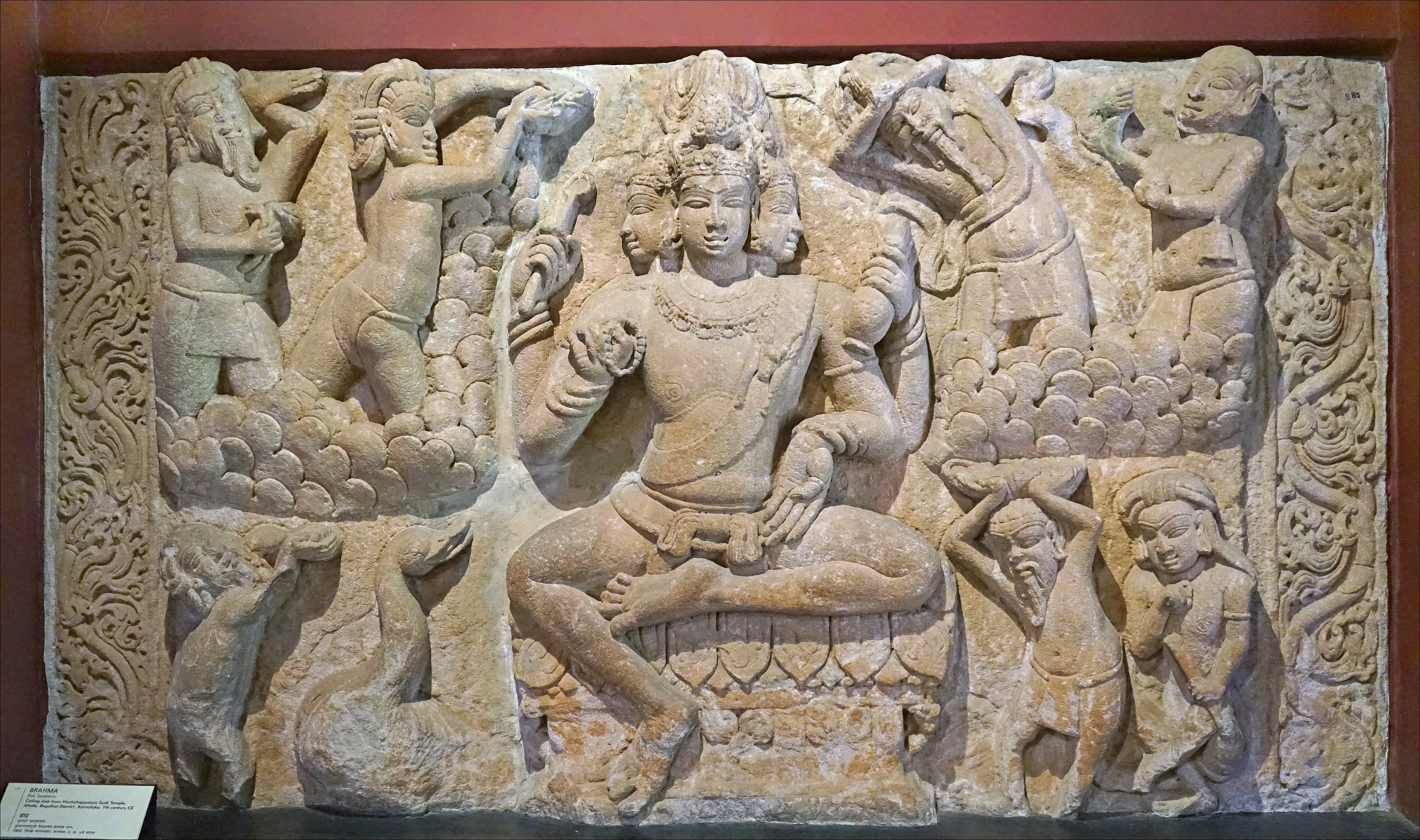 Brahma Huchchappaiyya Gudi Temple Aihole, Bagalkot, Karnataka VII ème siècle Grès rose Oeuvre présentée dans la galerie des sculptures du musée Chhatrapati Shivaji Maharaj Vastu Sangrahalaya, anciennement appelé Musée Prince de Galles (futur Georges V), Musée de l'Inde occidentale, est l'un des musées d'art et d'histoire de premier plan en Inde. Le bâtiment du musée, construit en 1905 (architecte George Wittet), est un bel exemple du style indo-sarracénique, mêlant des influences occidentales et indo-musulmanes. Ainsi, le dôme est d'inspiration moghole. Le musée possède une collection de plus de 60 000 objets d'art. A la différence de beaucoup de musées indiens, sa muséographie est moderne et bien conçue. Un audioguide en français est disponible à l'entrée et des bornes numériques permettent aux visiteurs d'obtenir des informations complémentaires dans les salles d'exposition. Chhatrapati Shivaji Maharaj Vastu Sangrahalaya (CSMVS) ancien Musée Prince de Galles, musée de l'Inde occidentale de Mumbai (Bombay) csmvs.in/